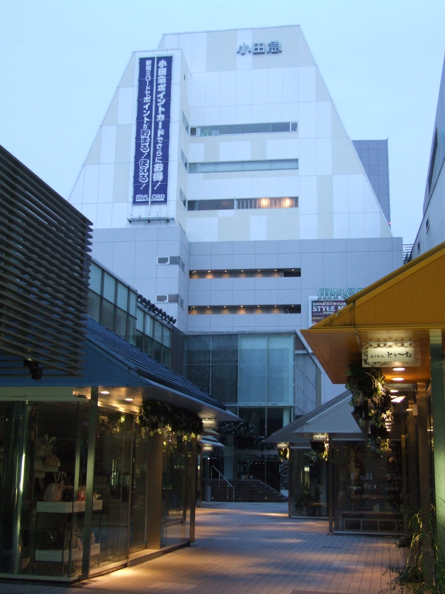 Shinjuku MYLORD, Shinjuku, Tokyo, Japan